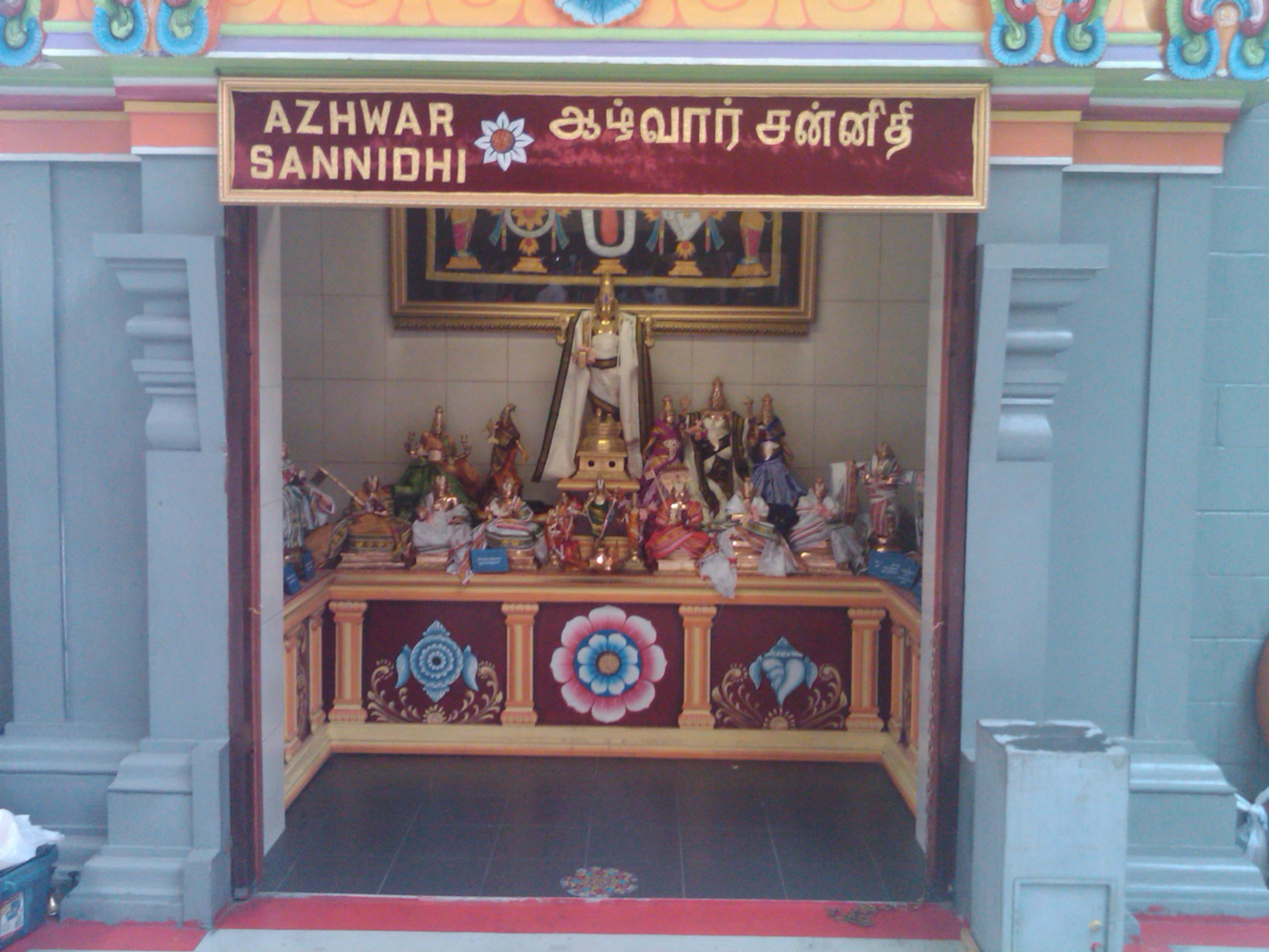 Alwar altar at Richmond Hill Hindu Temple, Toronto- Canada